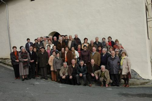 People of Beasain interviewed for the project for collecting the Basque language and ethnography of Beasain